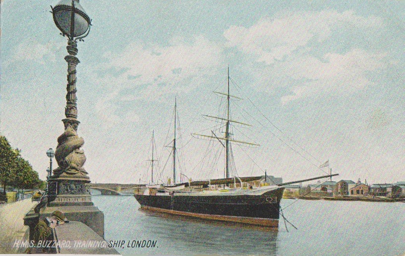 postcard entitled "H. M. S. Buzzard Training Ship, London", used in post with green halfpenny stamp of King Edward VII, postmarked "JU 12 06", on reverse "P. P. & P. Co. Croydon"